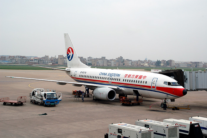 China Eastern Boeing 737-700 (B-5074) at Kunming Wujiaba International Airport in Kunming, Yunnan Province, People's Republic of China.